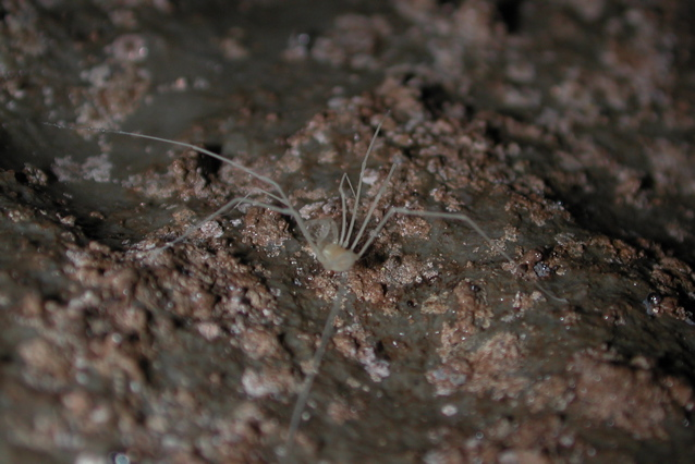 Tolus appalachius from the Appalachians.